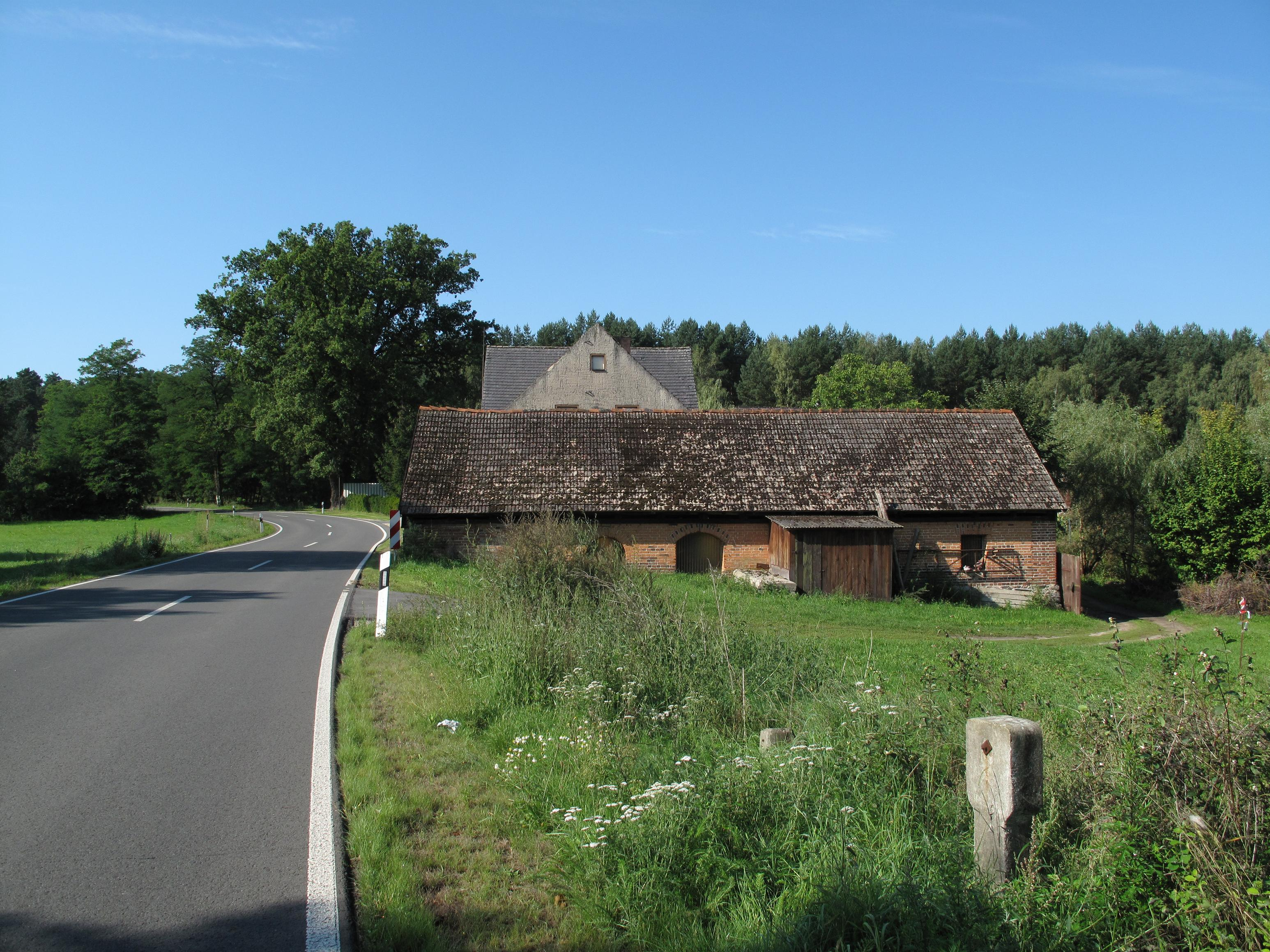 The Oelsener Mühle at the Landesstraße (road) L 435, part 020, between Grunow and Oelsen (part of Groß Briesen). The watermill is situated in the Schlaube Valley Nature Park, at the northern bank of the Oelsener See (lake) at the stream Oelse in the District Oder-Spree, Brandenburg, Germany. The mill was first mentioned in a document in 1406 and is still in use today.